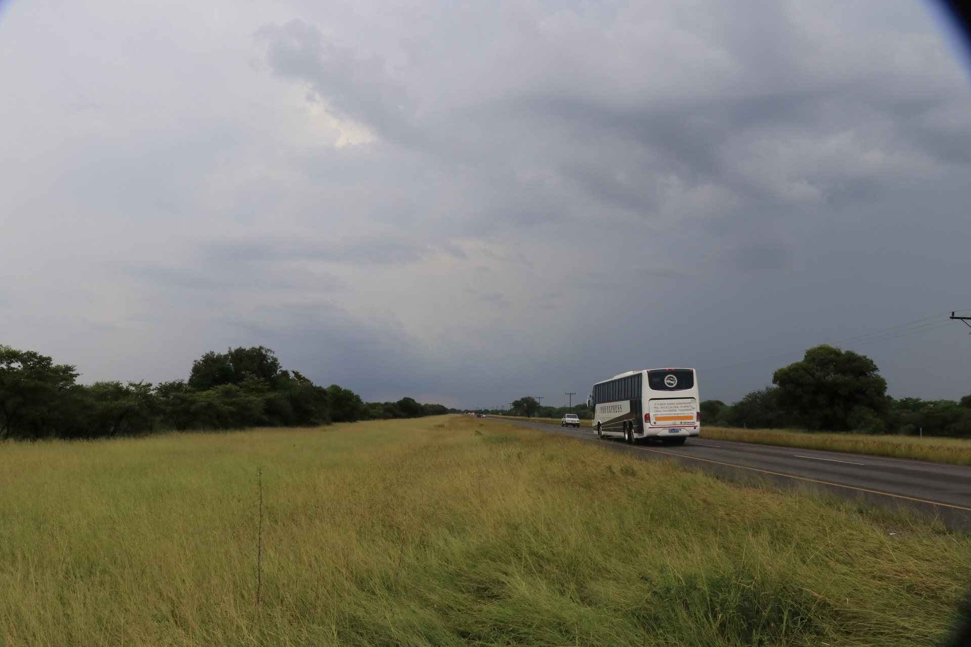 Busses create a reliable link for everyday mass travel between Botswana cities and towns This is an image with the theme "Africa on the Move or Transport" from: Botswana